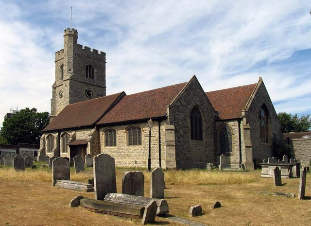 St Clement, Leigh-on-Sea, Essex